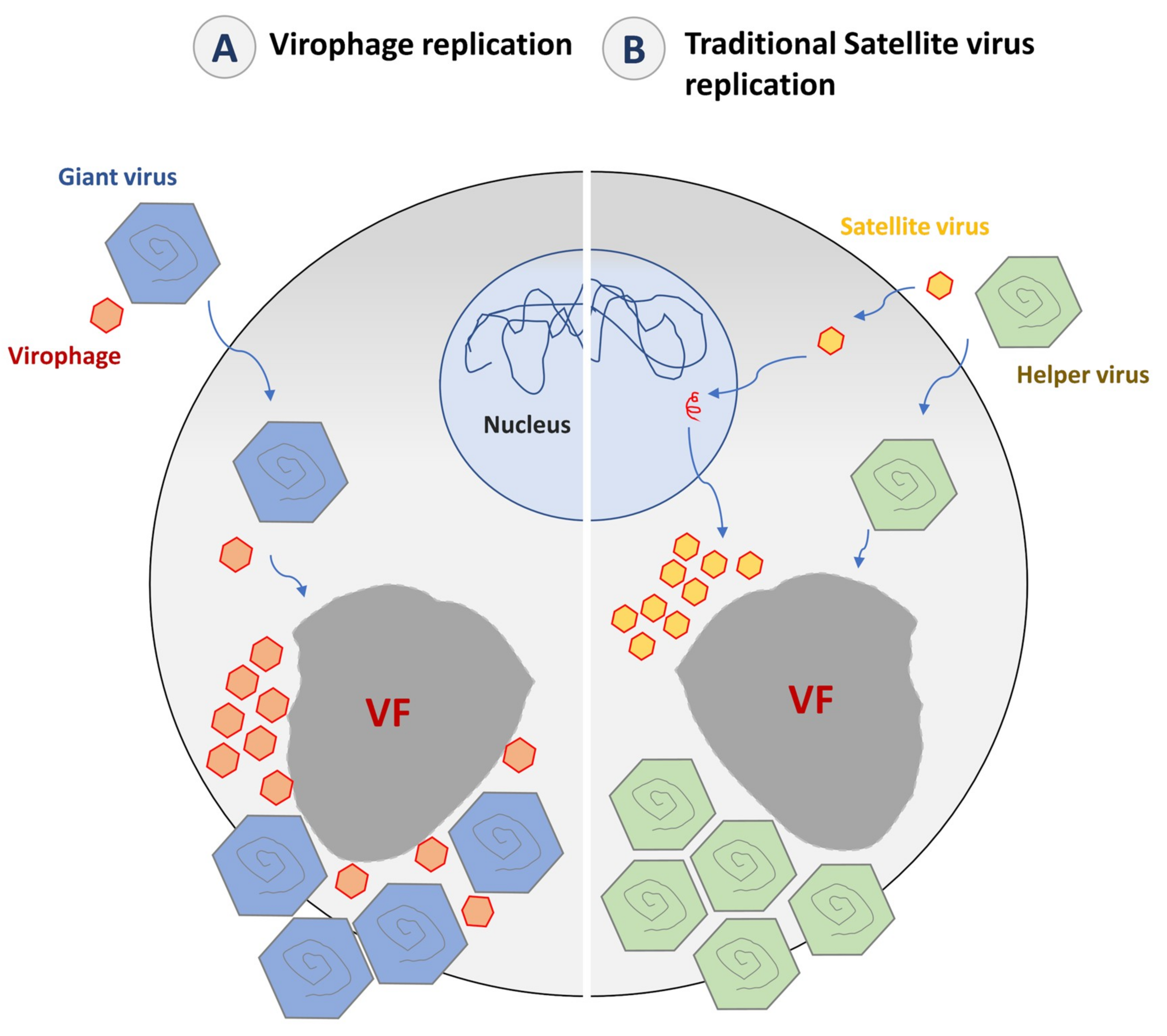 Virophages and satellite virus’ lifestyle. (A) The replication of virophages is supposed to occur entirely in the virus factory of its giant virus host, depending of the giant virus expression/replication complex. (B) The concept of satellite virus implicates that the virus initiates the expression and replication of its genome in the nucleus using the host cell machinery and then goes to the cytoplasm. In the cytoplasm, the satellite virus hijacks the morphogenesis machinery of its helper virus to produce its progeny.